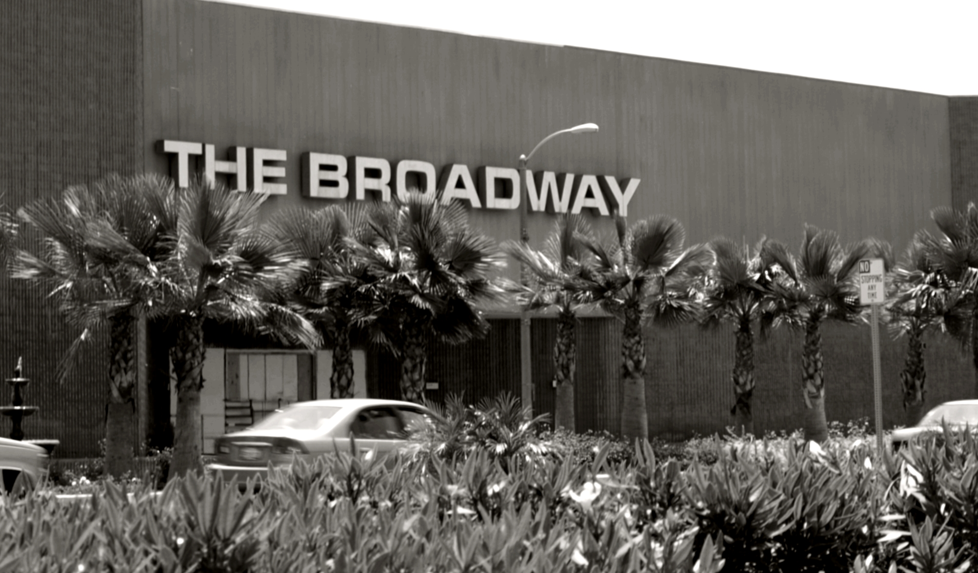 Street entrance to the now abandoned The Broadway department store at the former Hawthorne Plaza Shopping Center at 12200 Hawthorne Boulevard, Hawthorne, California. View from the southbound lane of Hawthorne Boulevard, looking southeast.This photograph was taken with an Olympus E-510 DSLR camera and edited (saturation, sharpness, contrast, brightness) using ArcSoft PhotoStudio 5.5)